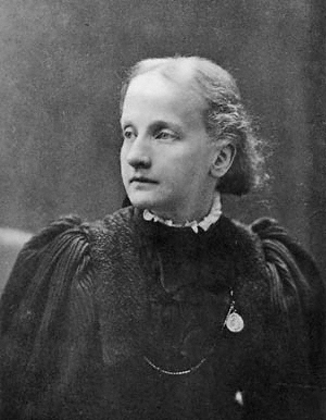 A photograph of Lady Victoria Campbell, taken in 1895 by William Crooke.